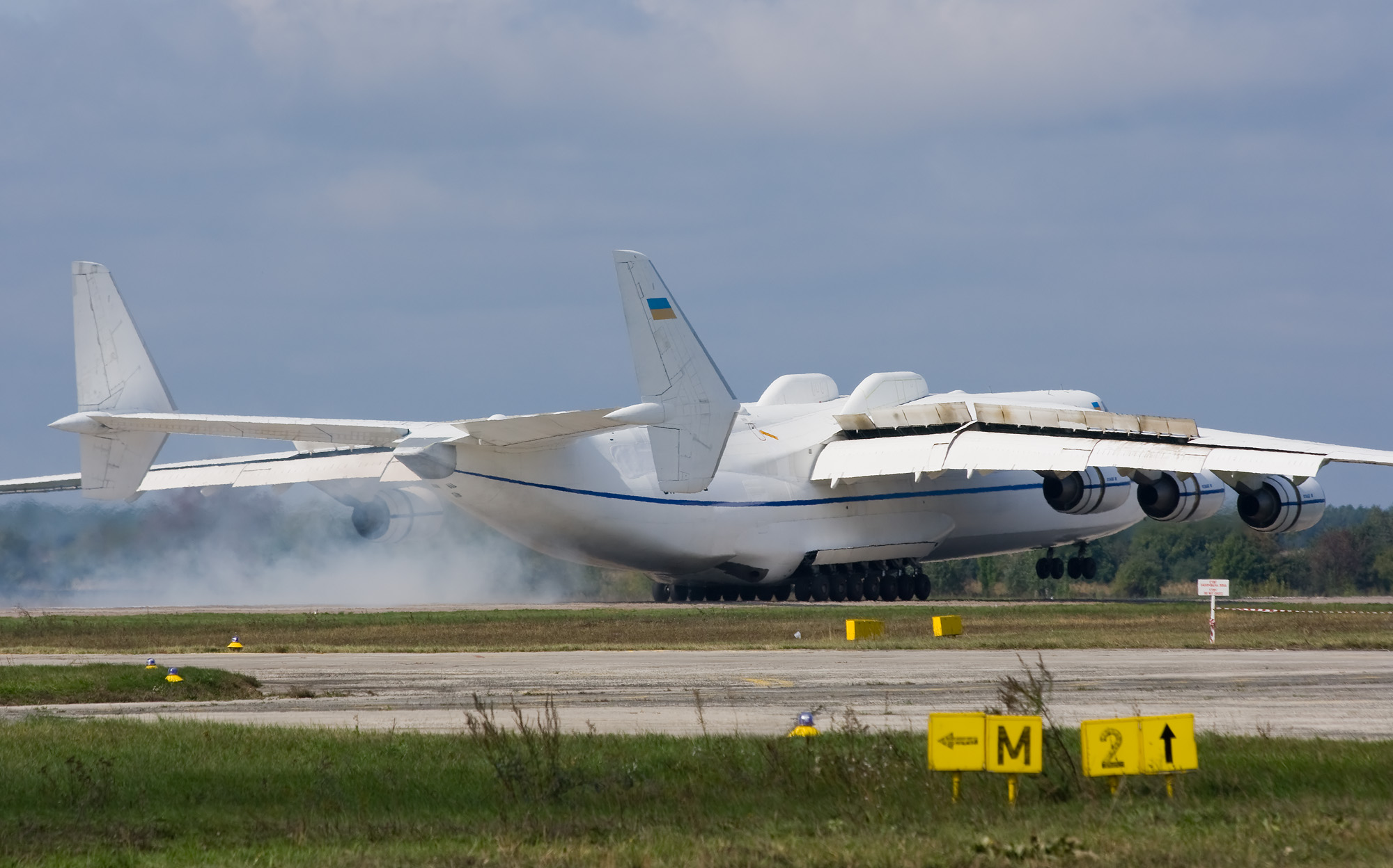 Antonov An-225 Mriya